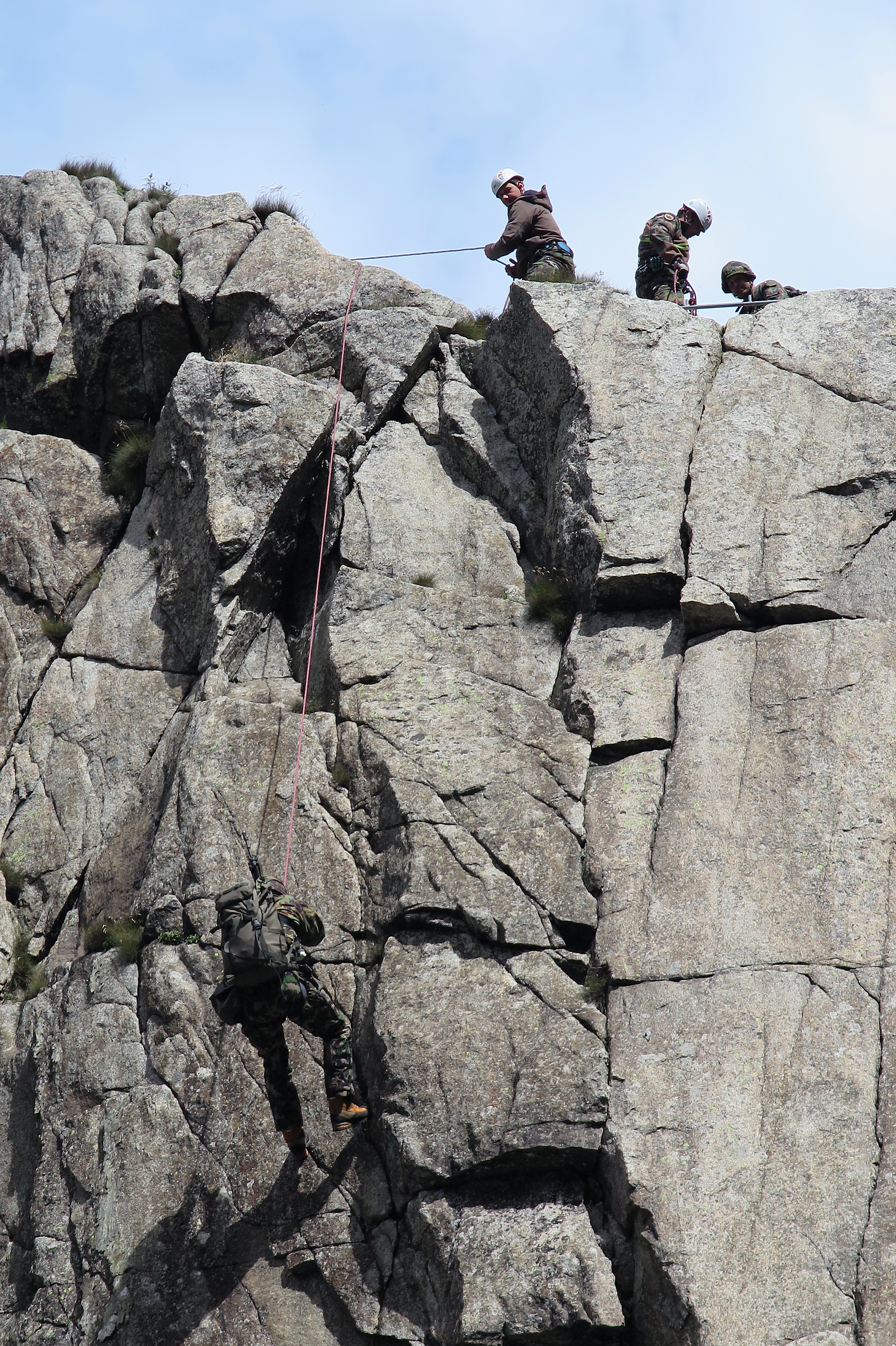 Soldiers of the Swiss Army at voluntary mountain training above the Devil's Bridge. The soldier on the rope is almost unrecognizable in camouflage. Schöllenen, Canton of Uri, Switzerland, Aug 8, 2014.